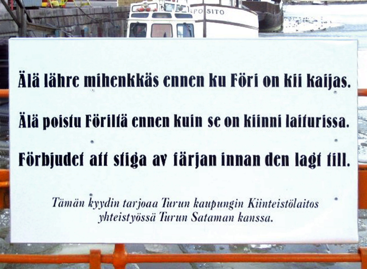 This tag is at the Föri in Turku (Finland). "Don't leave the Föri before it has reached the dock."